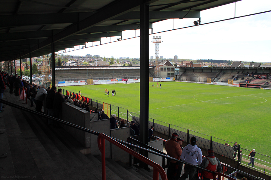 De stadium Stade du Pairay in Seraing, Belgium